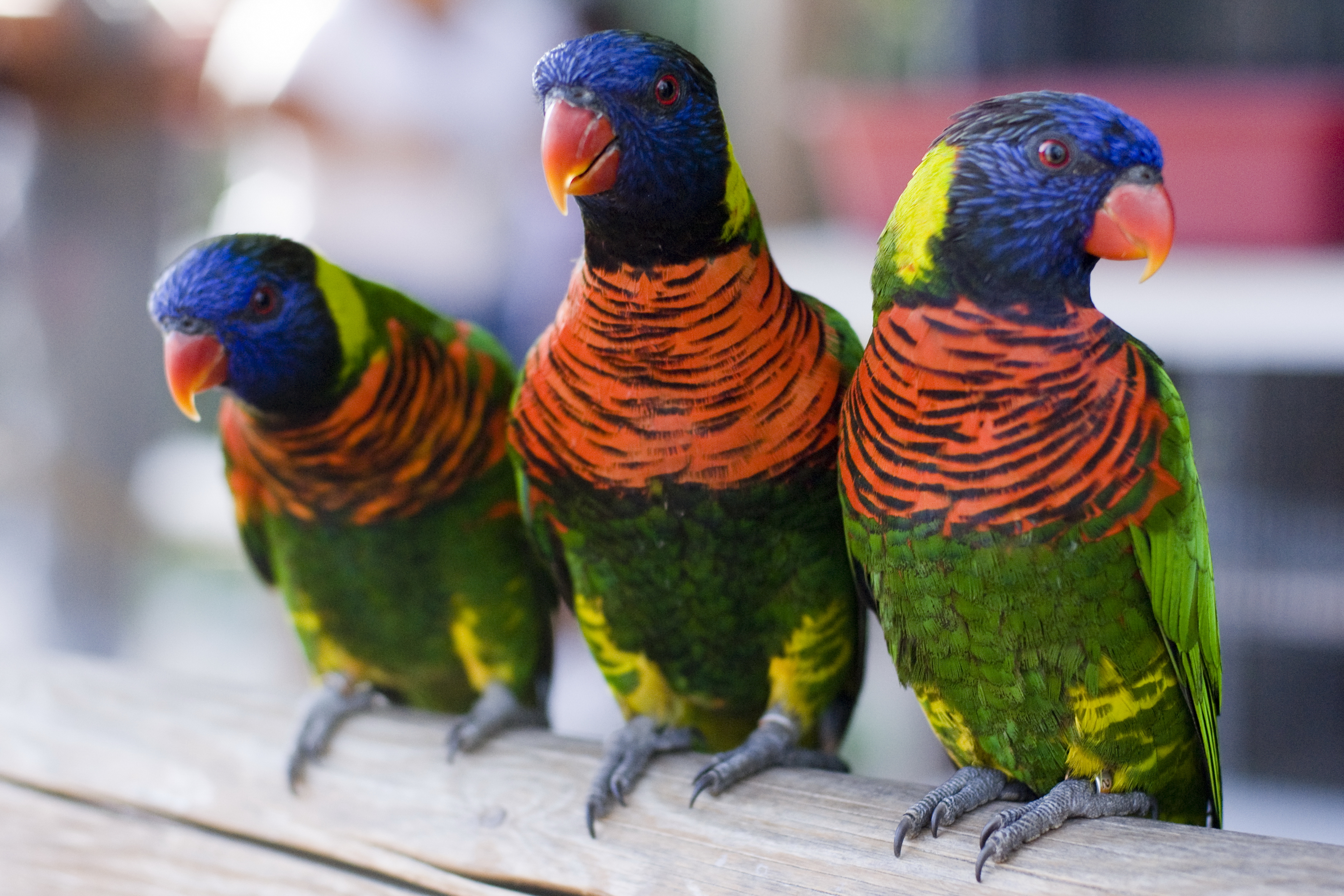 Three Rainbow Lorikeets at the Aquarium of the Pacific, California, USA.